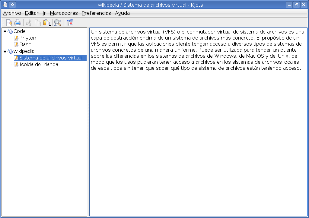 kjots is a kde program for managing text documents